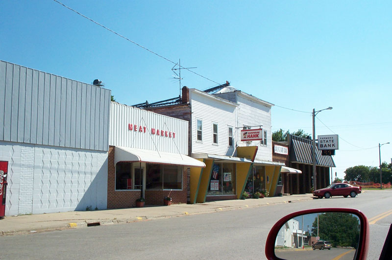 Hoffman, Minnesota. From .